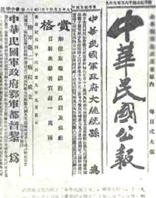 "Republic of China Gazette" first issued by Hubei Military Government on October 15, 1911.